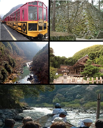 Kameoka montage